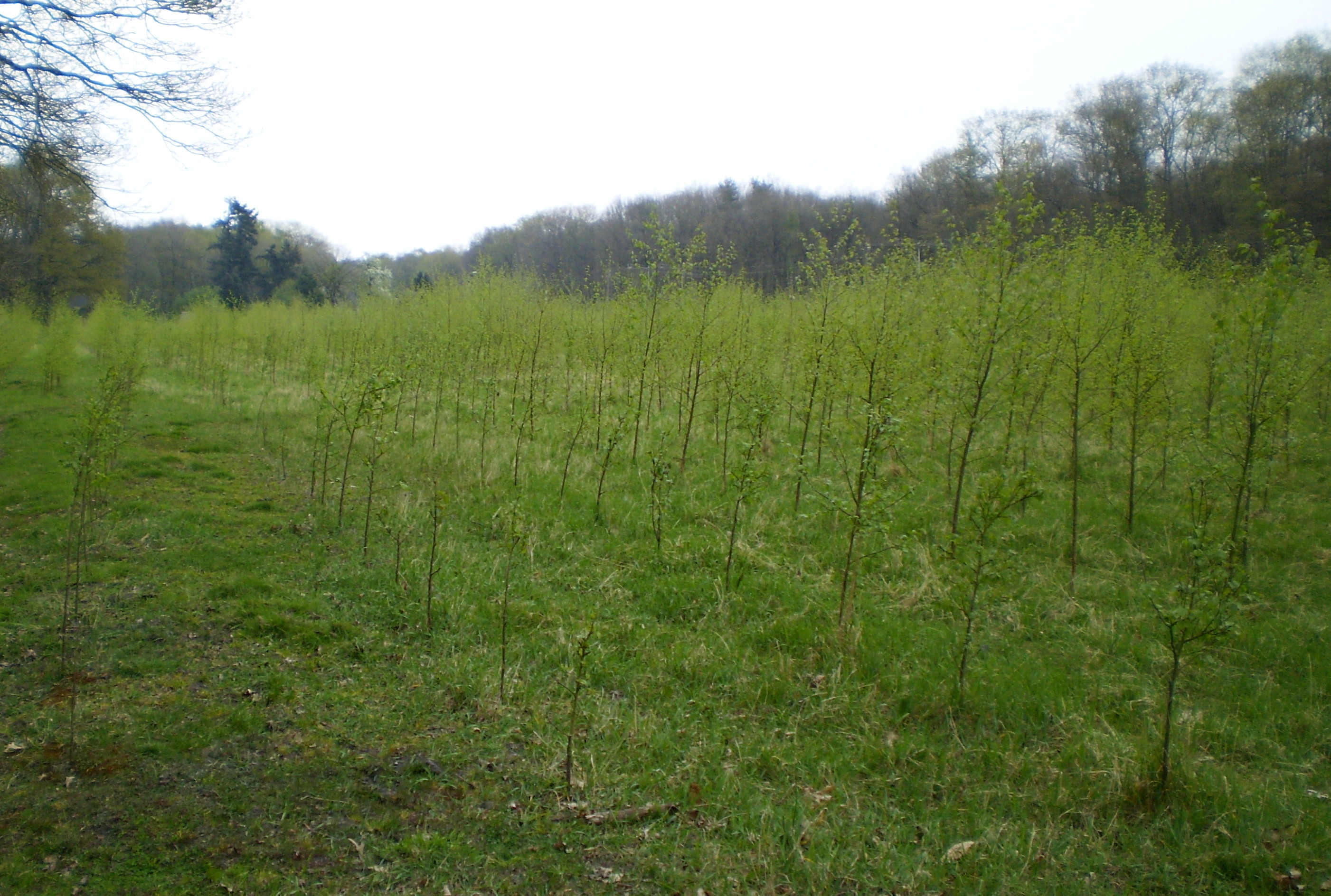 "Holland's first internet forest" near Apeldoorn, an initiative by company Cleanbits to compensate the carbon dioxide emission caused by internet servers. The first birches were planted on April 22, 2008